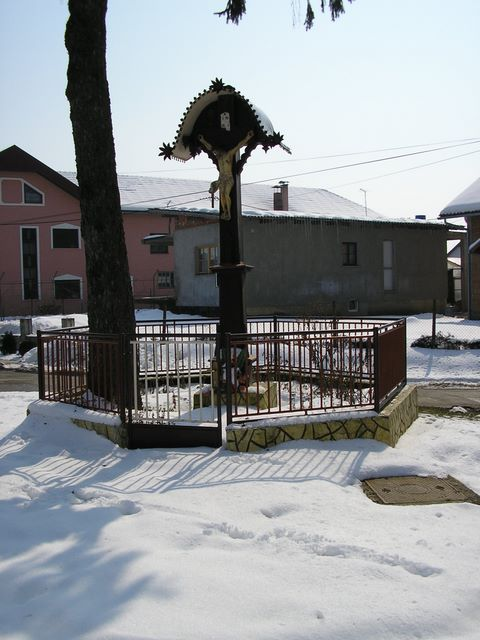 Crucifix in Donja Lomnica